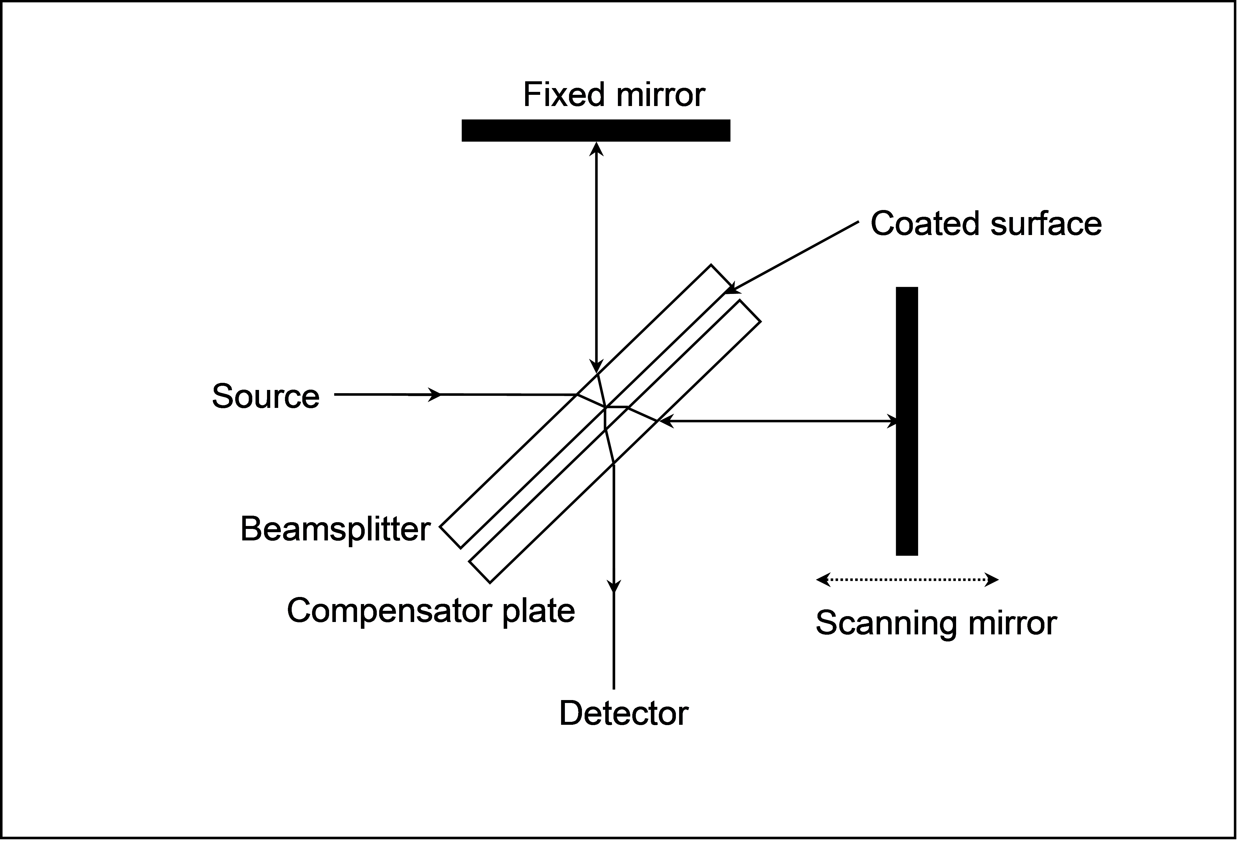 Includes compensator plate